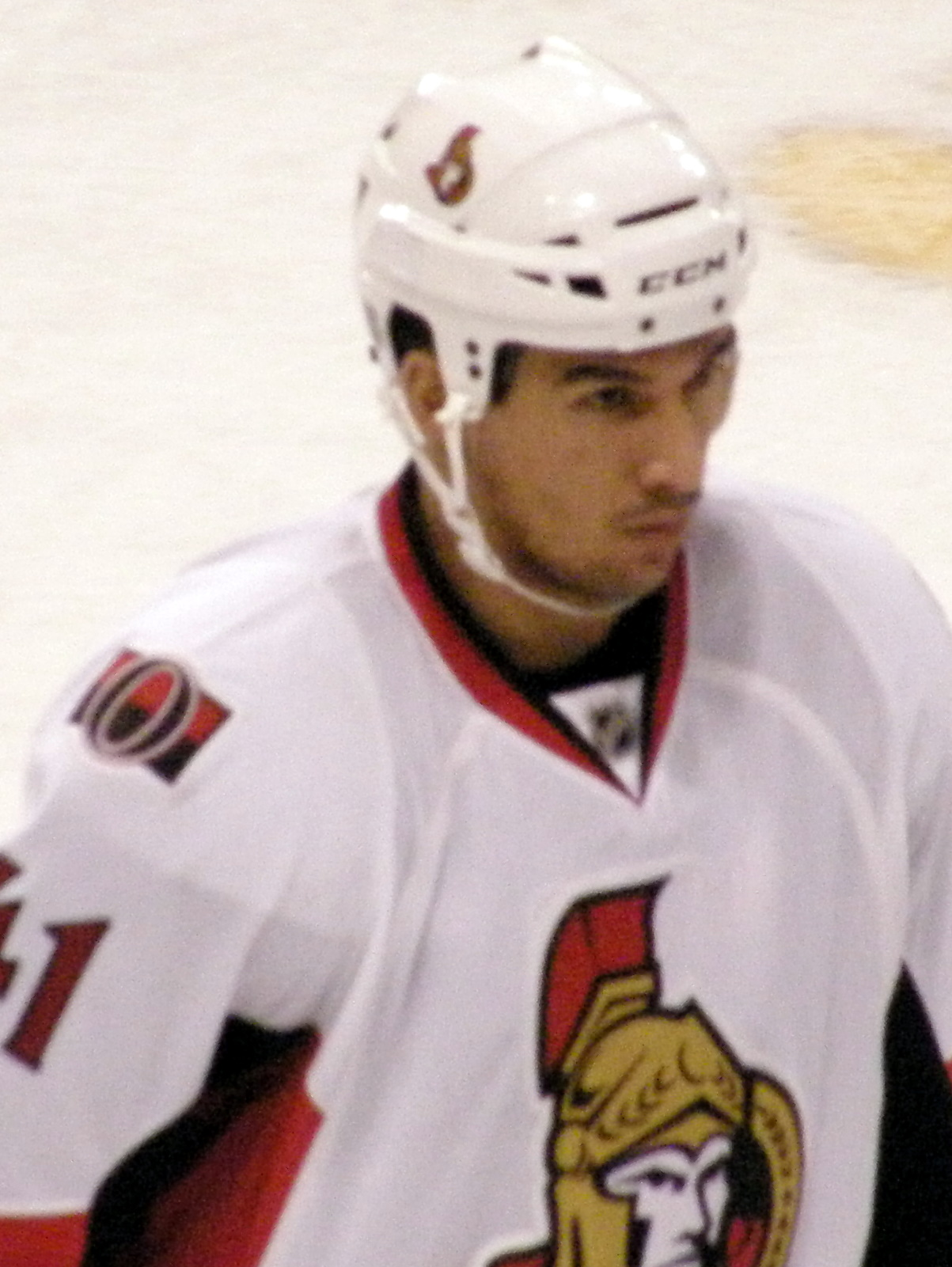 Cheechoo warming up for the Sens